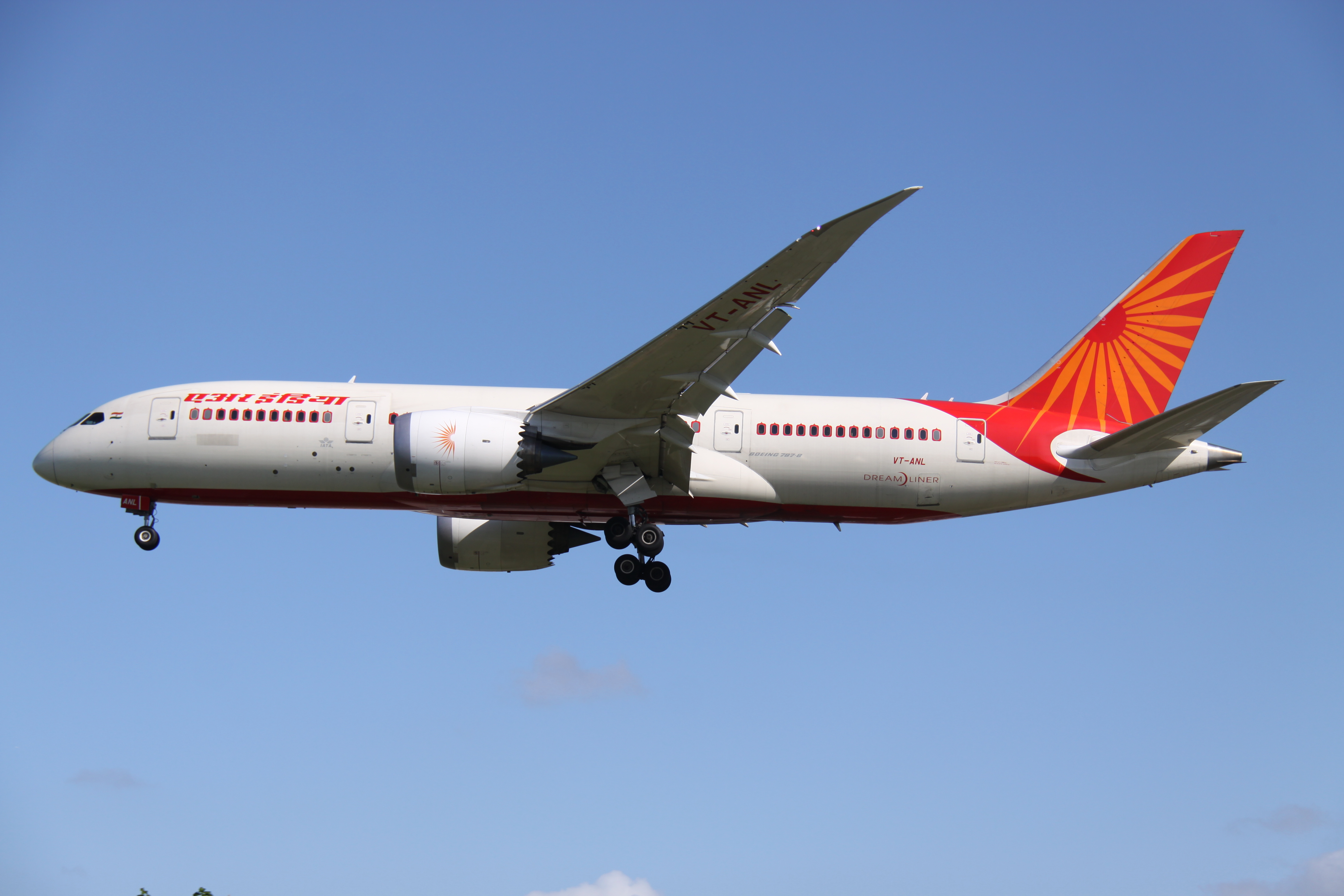 At London Heathrow